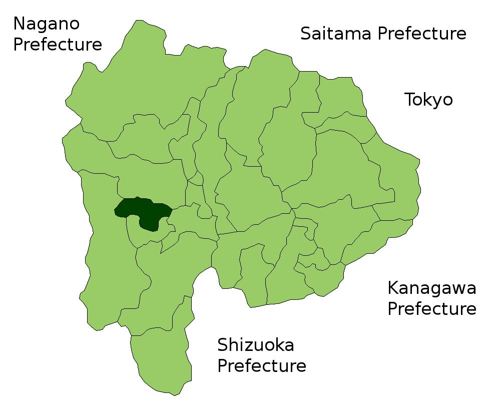 Location Map of Masuho in Yamanashi Prefecture, Japan